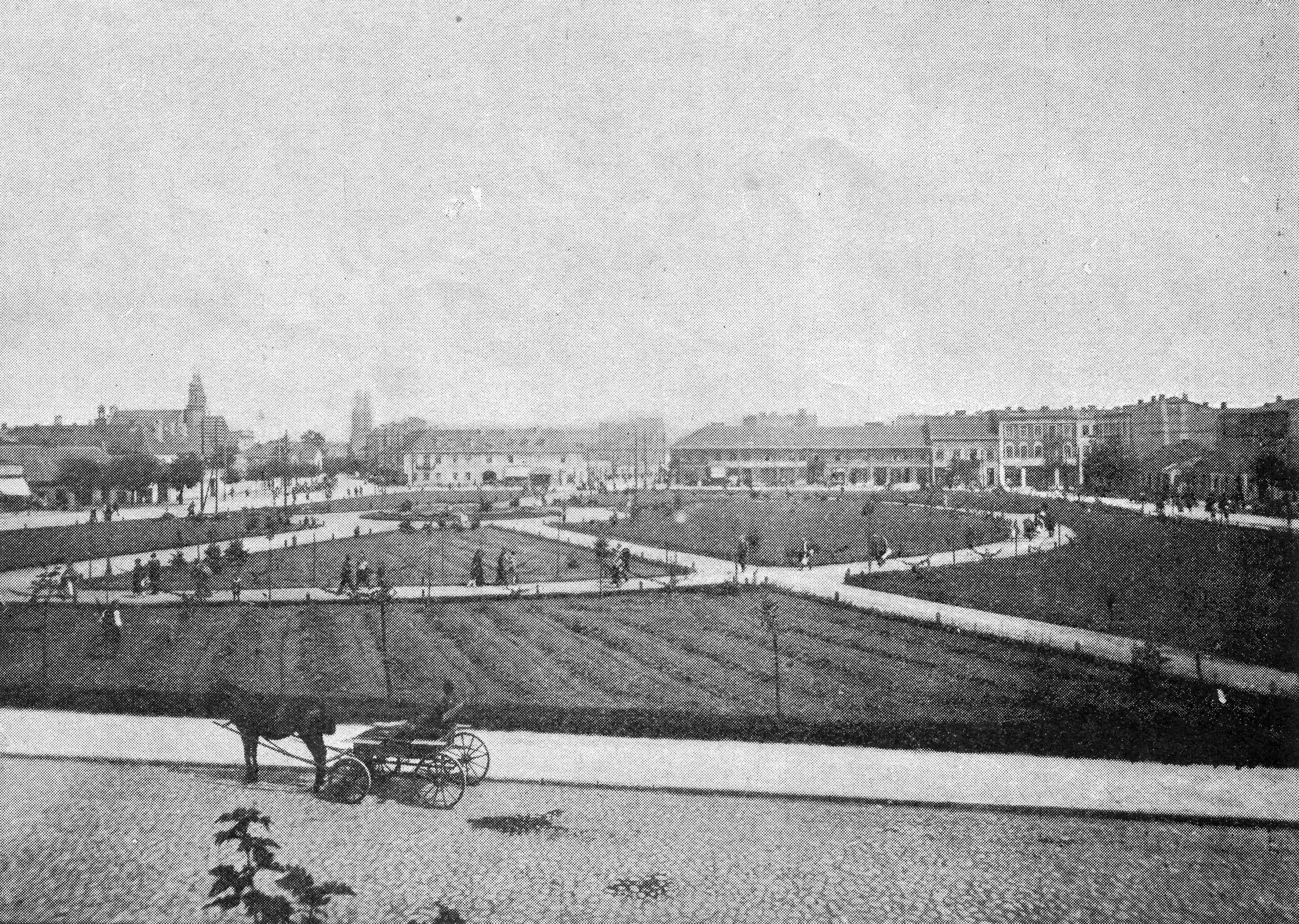 Nowy Rynek (The New Market Square) - Wloclawek - Poland - 1926